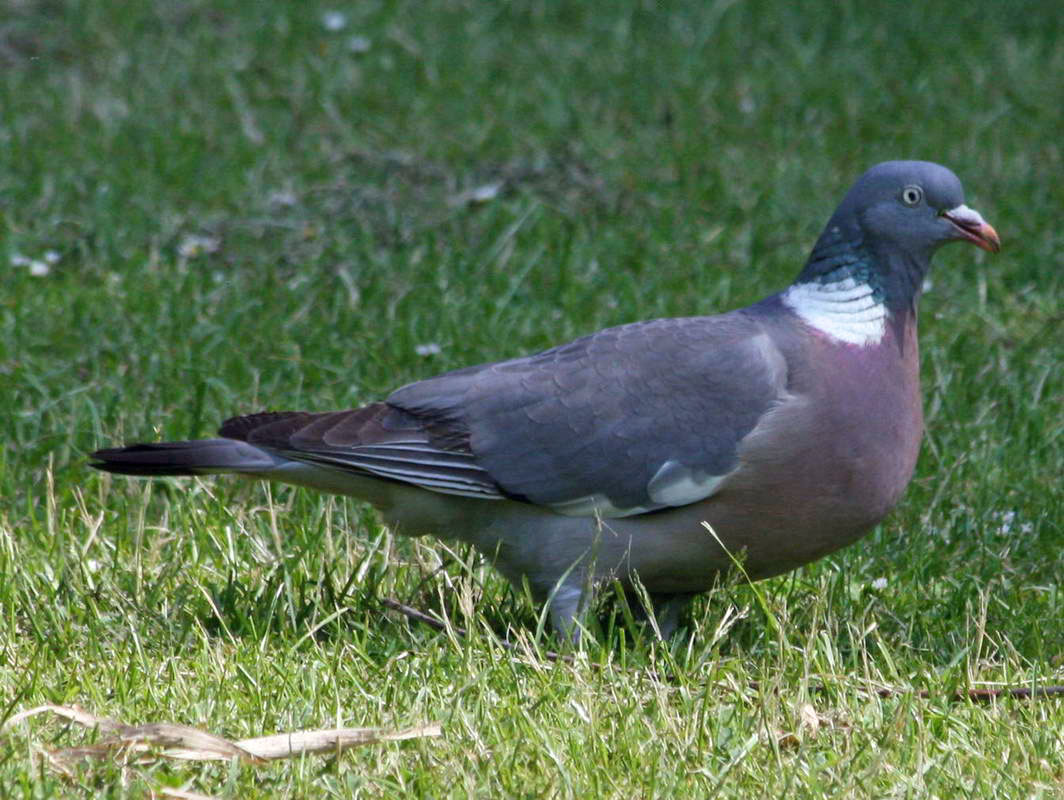 Wood pigeon in West Kirby, England